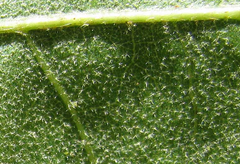 Stellate (star-like) hairs on a leaf from a Cherrybark Oak tree (Quercus pagoda)